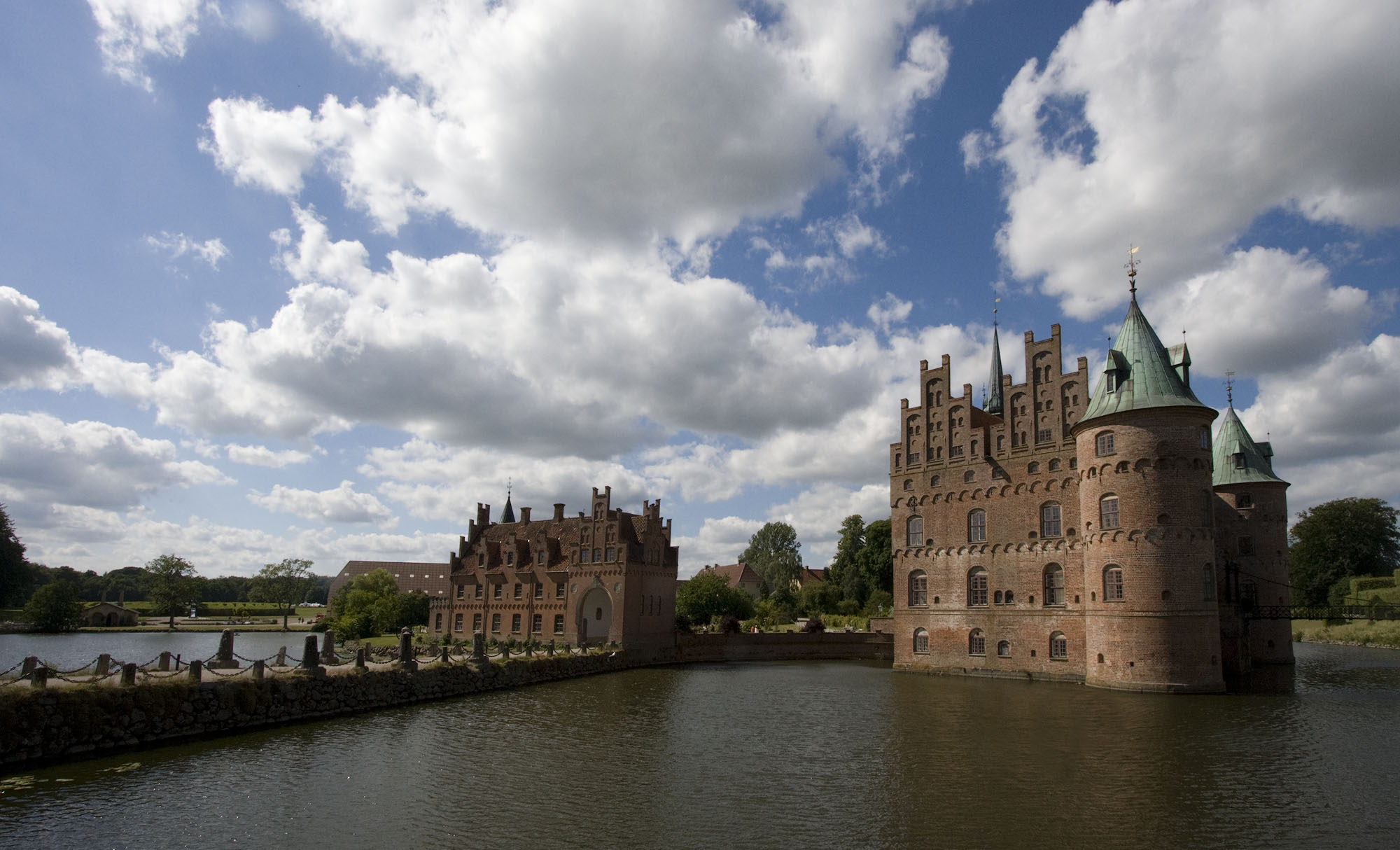 Egeskov Castle on the island of Funen in Denmark